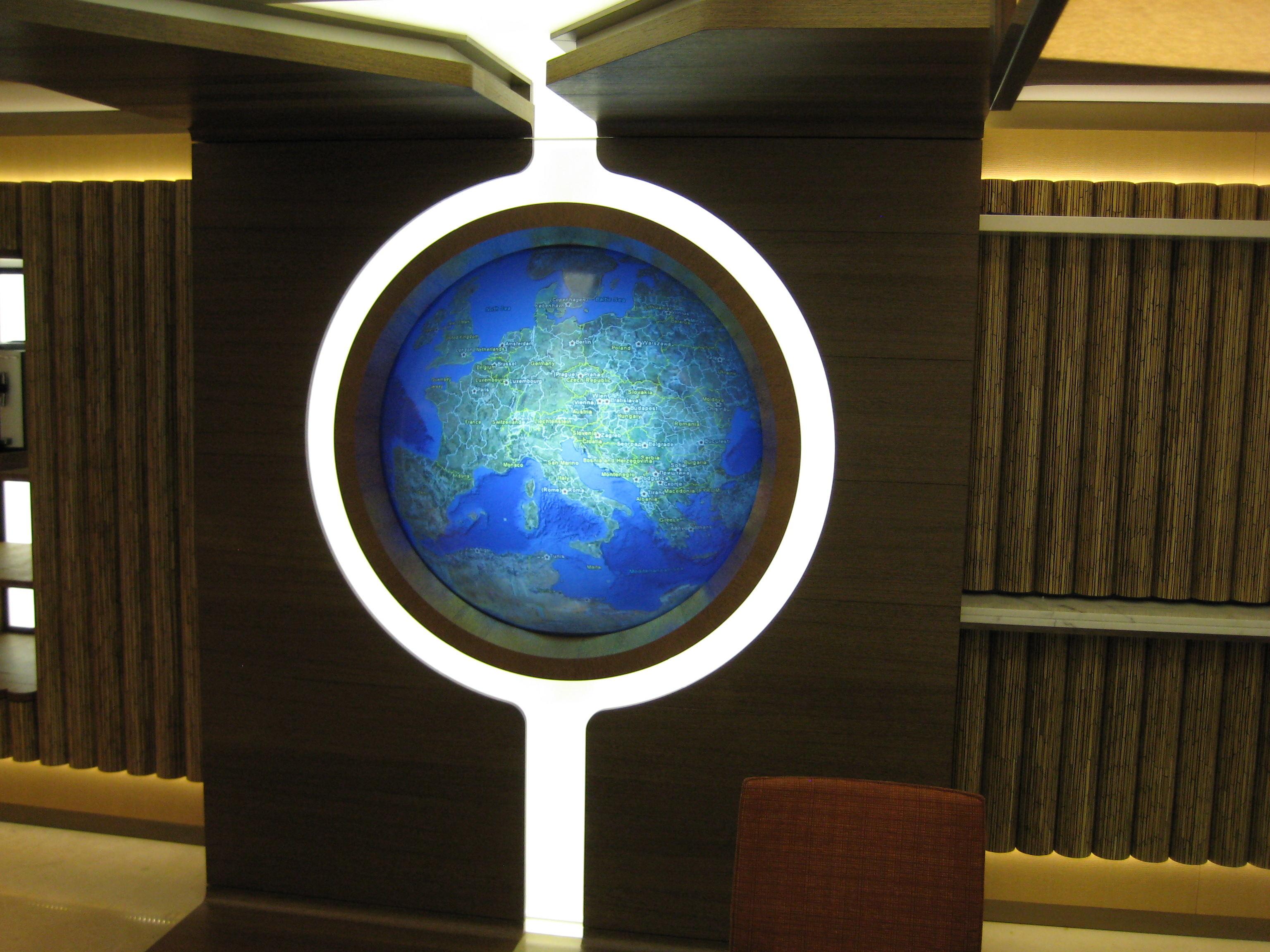 Multi-touch Globe is a spherical interactive display with domed screen and based on multitouch software